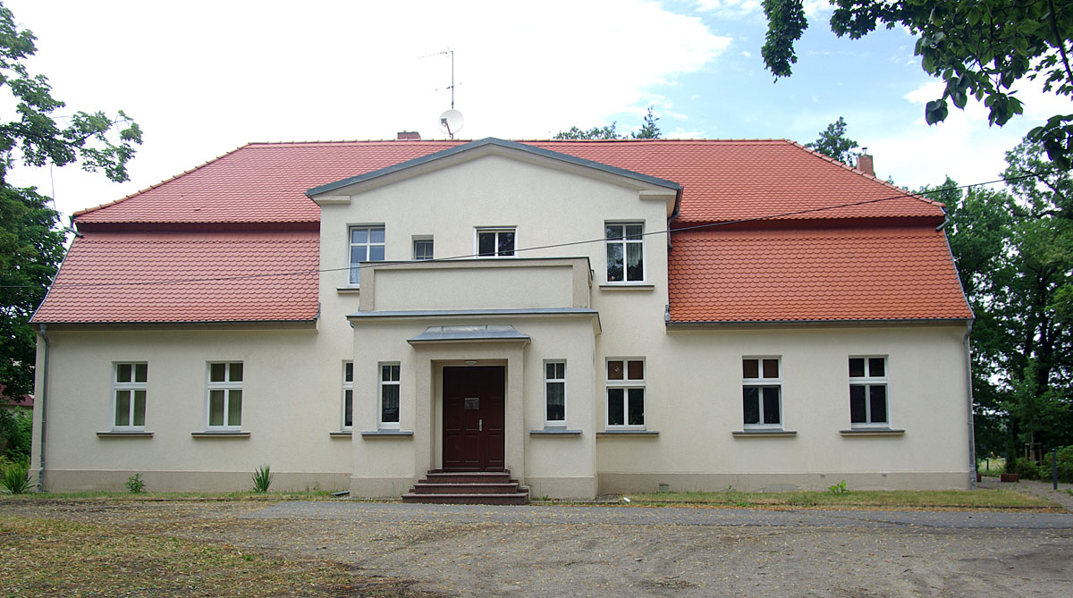 Manor house in Klein Kölzig, Brandenburg, Germany